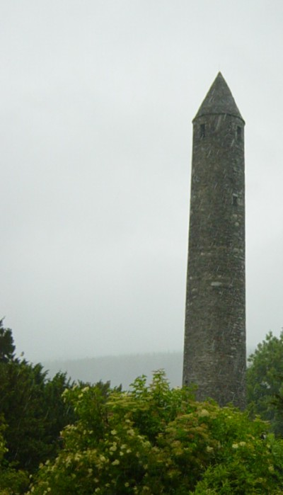 Round tower at Glendalough, Ireland. Photograph by Oliver Cotter, June 2004.